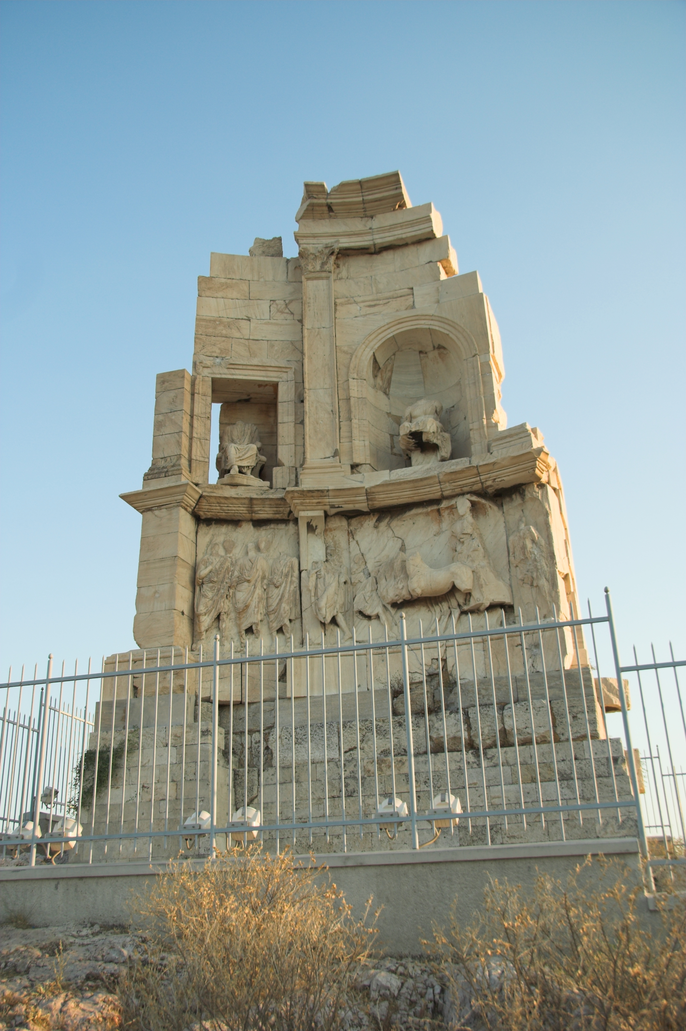 Philopappos monument, Athens.